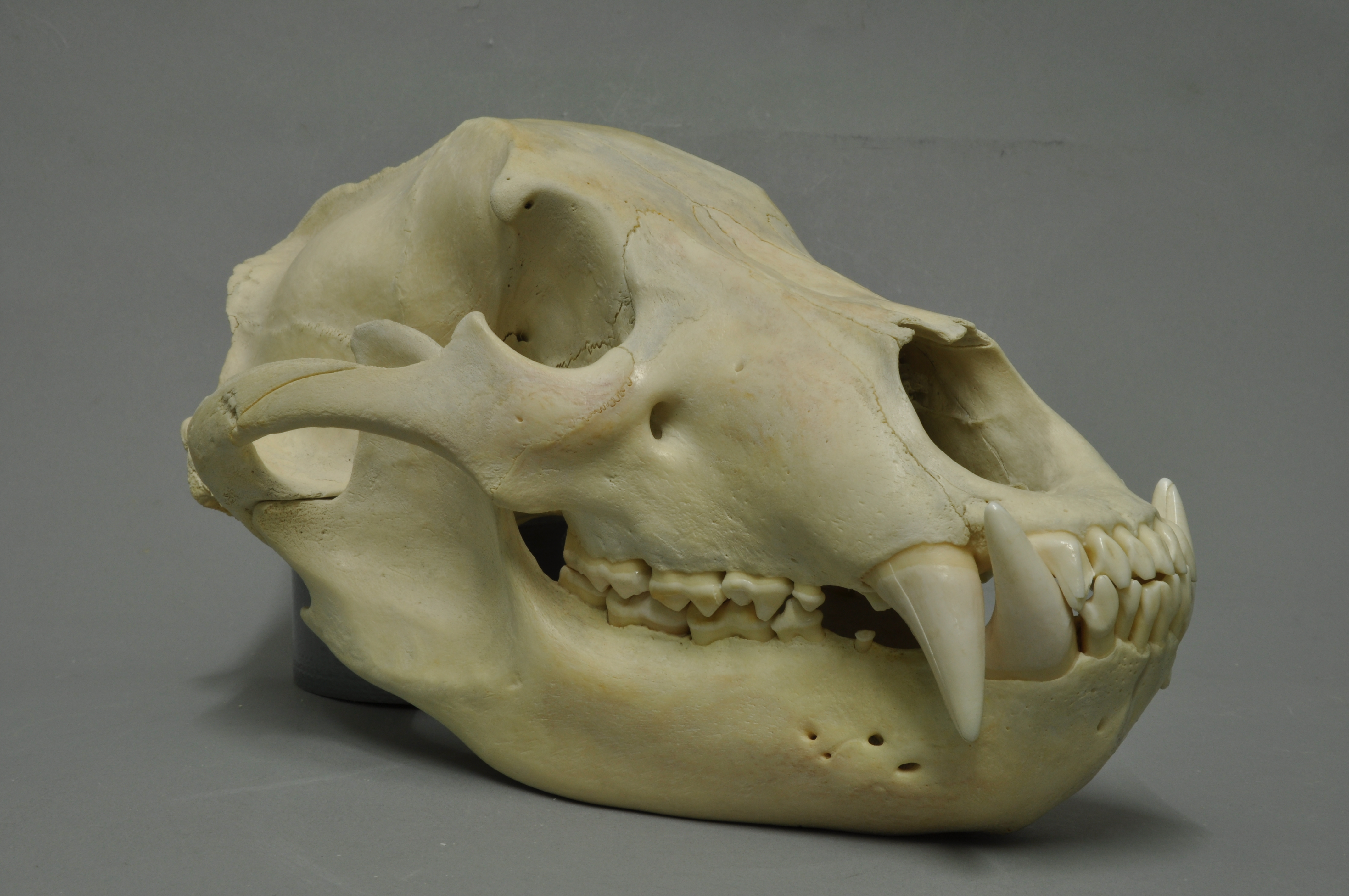 Brown bearUrsus arctos , skull, Coll. Museum Wiesbaden